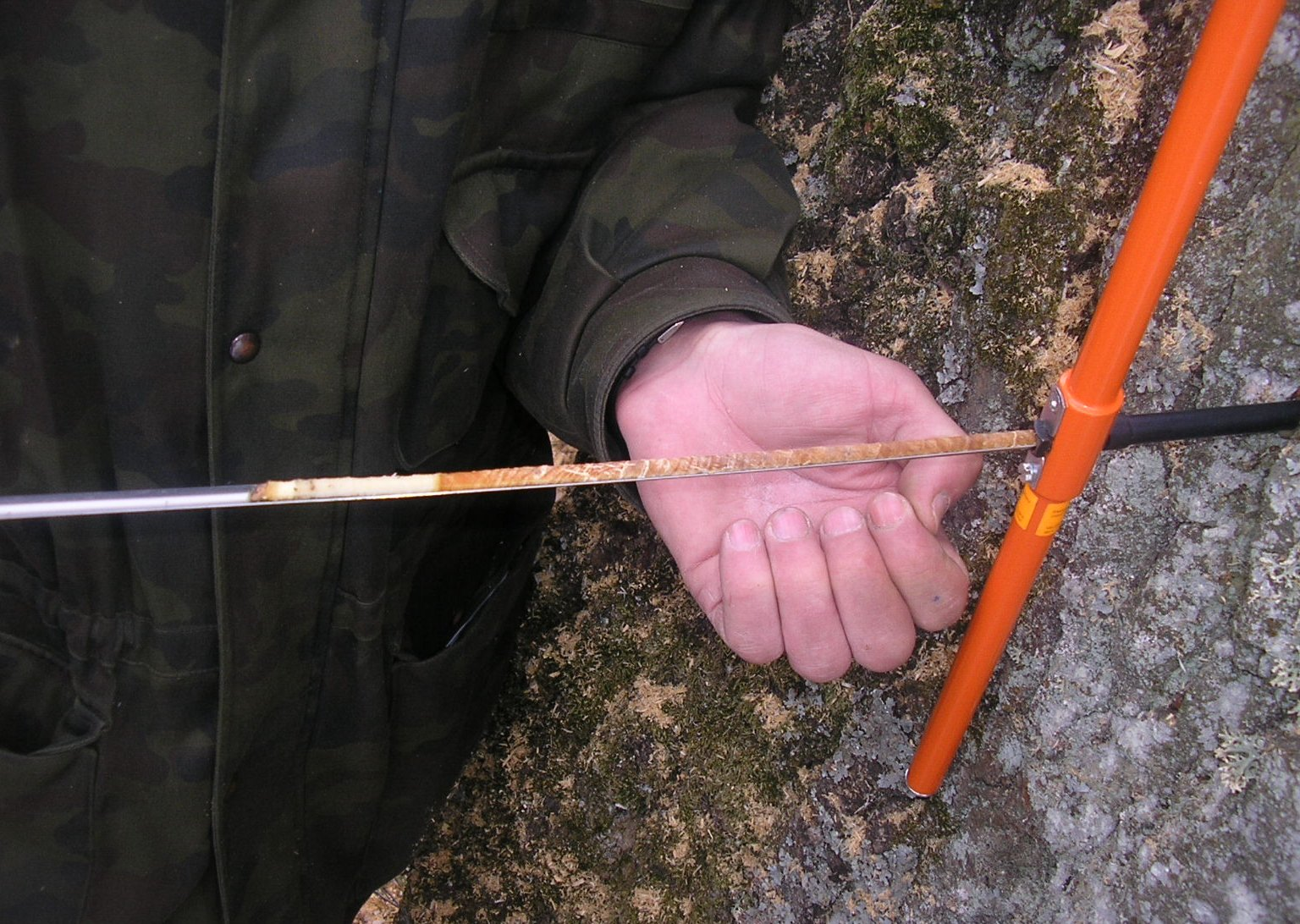 Pressler drill work on Populus alba